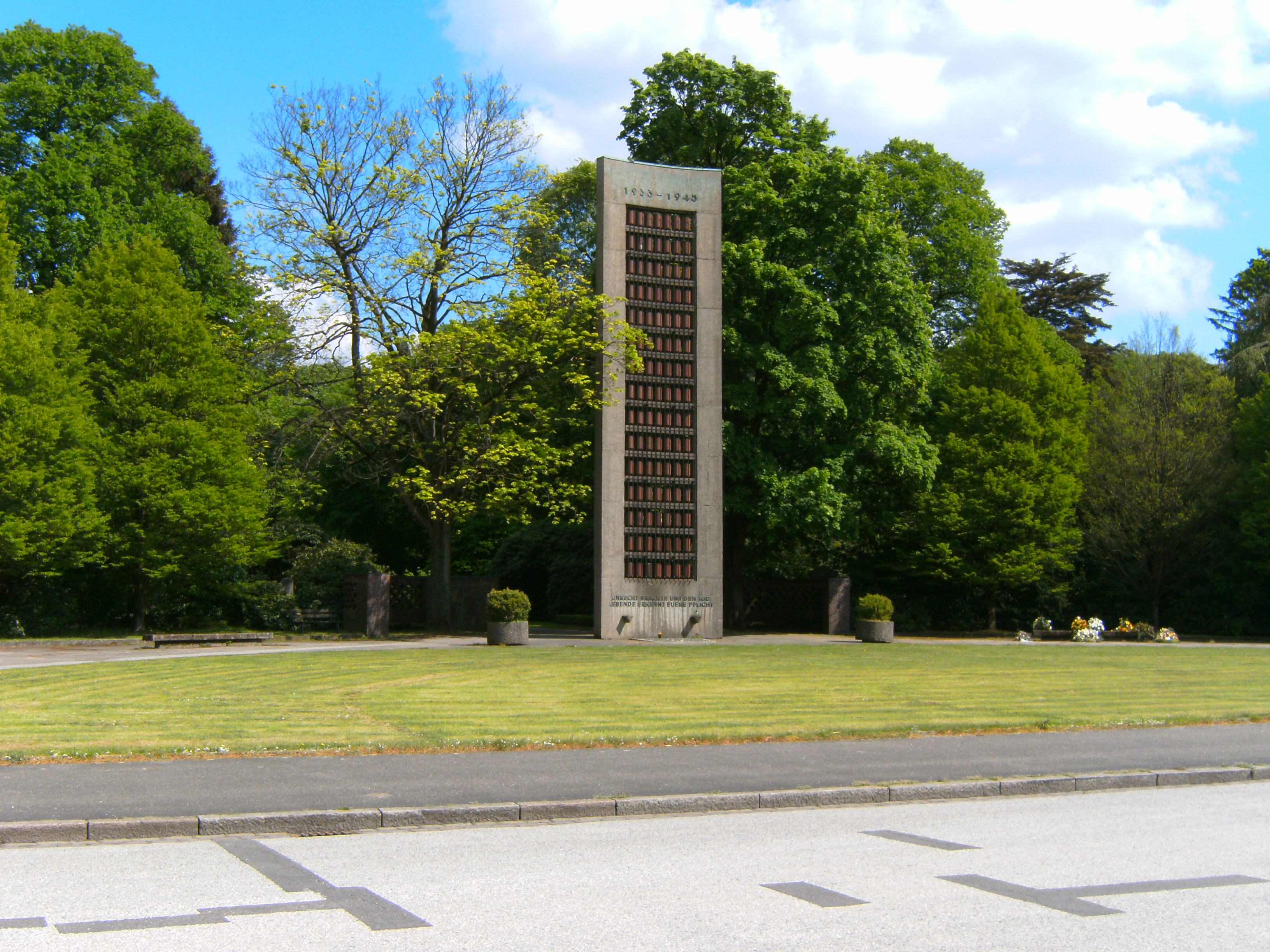 Friedhof Ohlsdorf (cemetery), Hamburg, Germany, memorial: For those murdered in nazi concentration camps from 1933 to 1945.